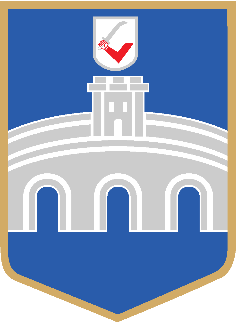 Coat of arms of Osijek